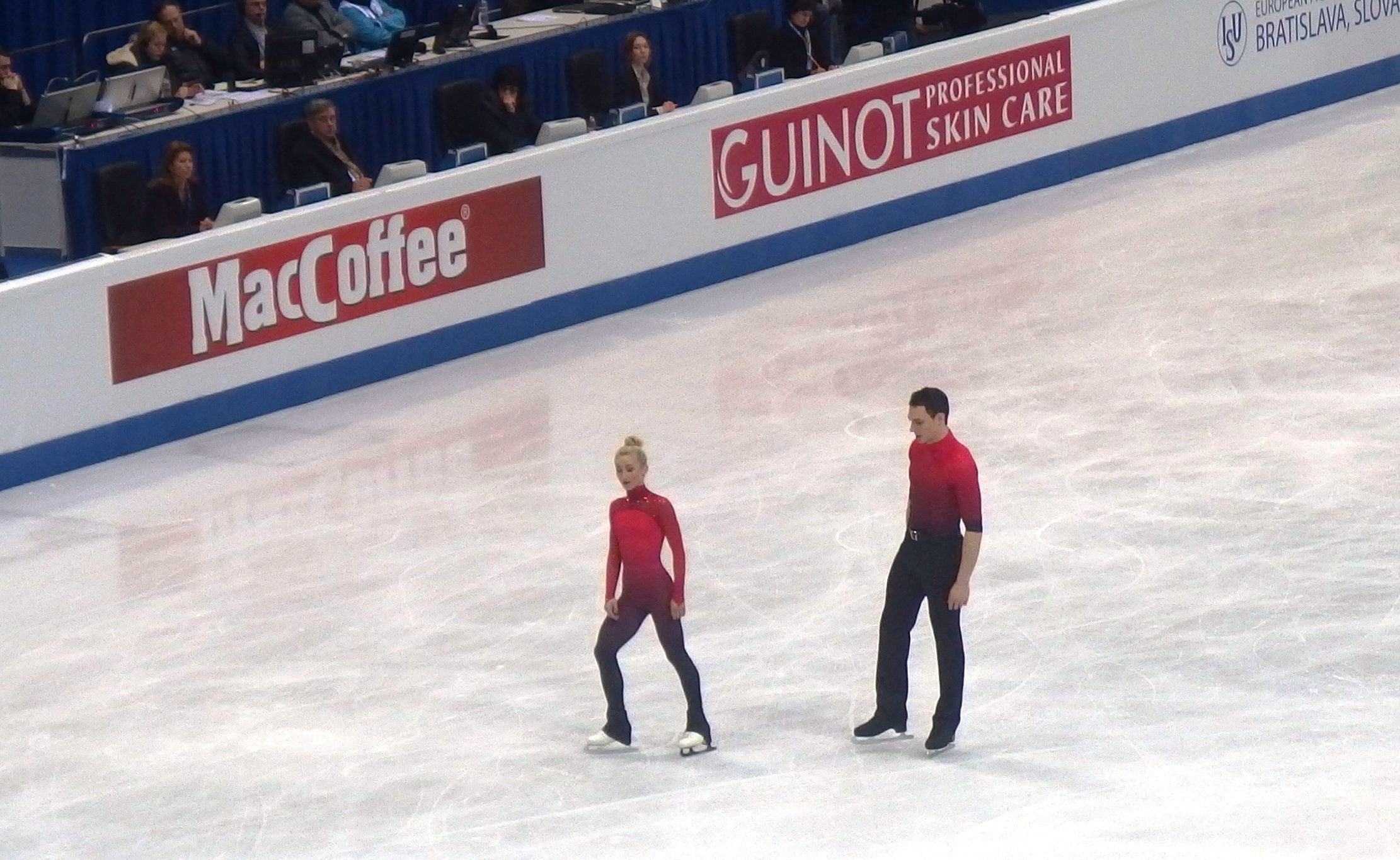 Bratislava, 2016 European Figure Skating Championships. Pairs-Aliona Savchenko/Bruno Massot, Germany (silver medal).